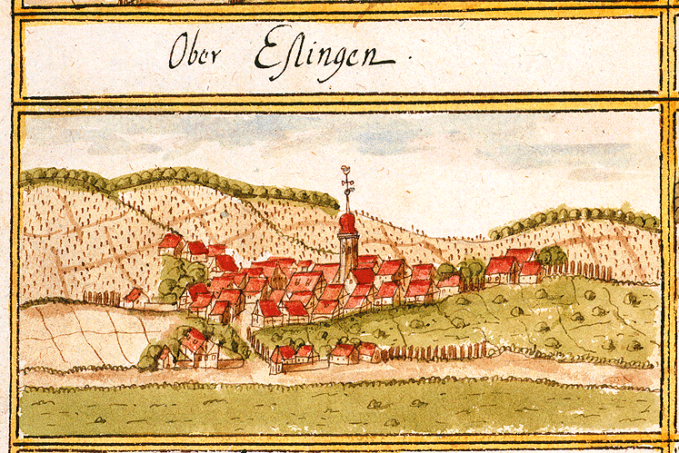 View of Oberesslingen, Esslingen am Neckar, from the forest register books created by Andreas Kieser